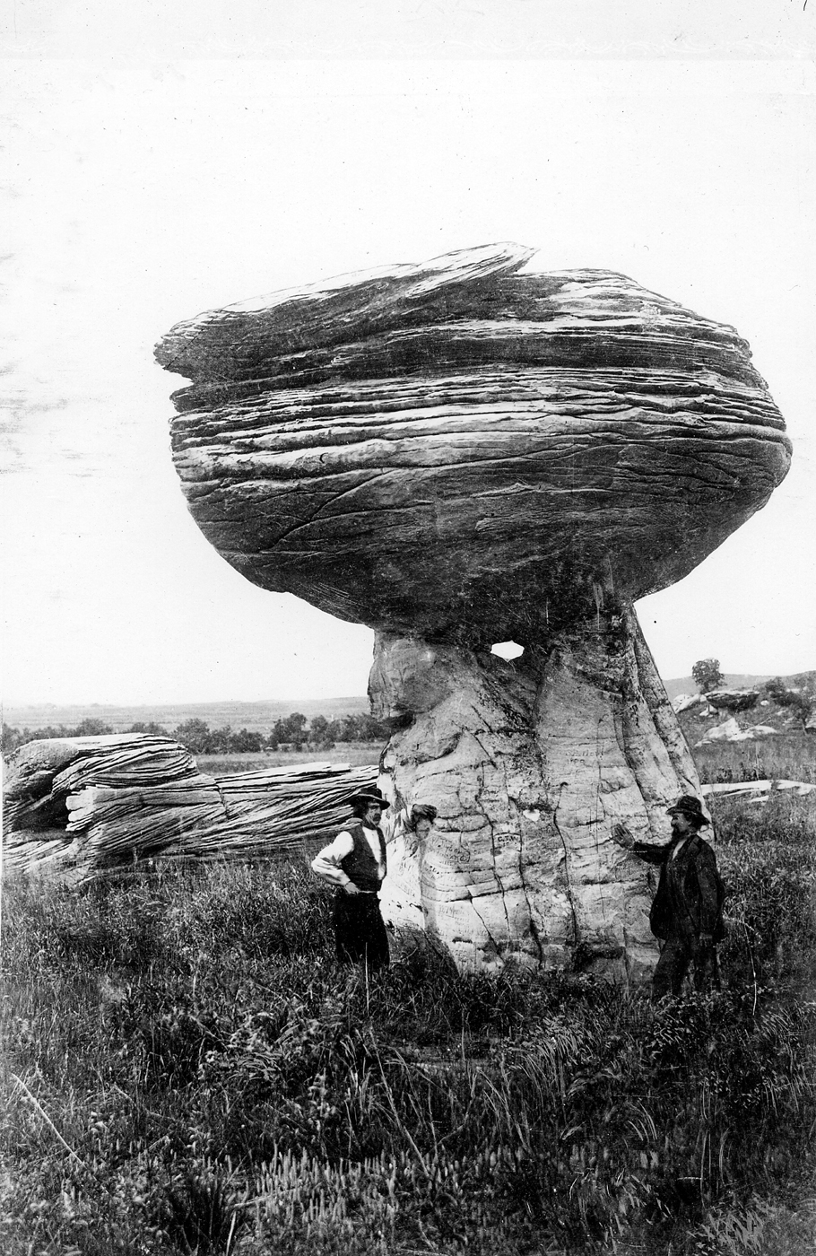 Rock formation at Mushroom Rock State Park, Kansas. Original caption: Pulpit rock, near Alum Creek south of Carneiro, a hard mass of Dakota sandstone which has resisted erosion than the underlying softer bed that forms its pedestal. Ellsworth County, Kansas.